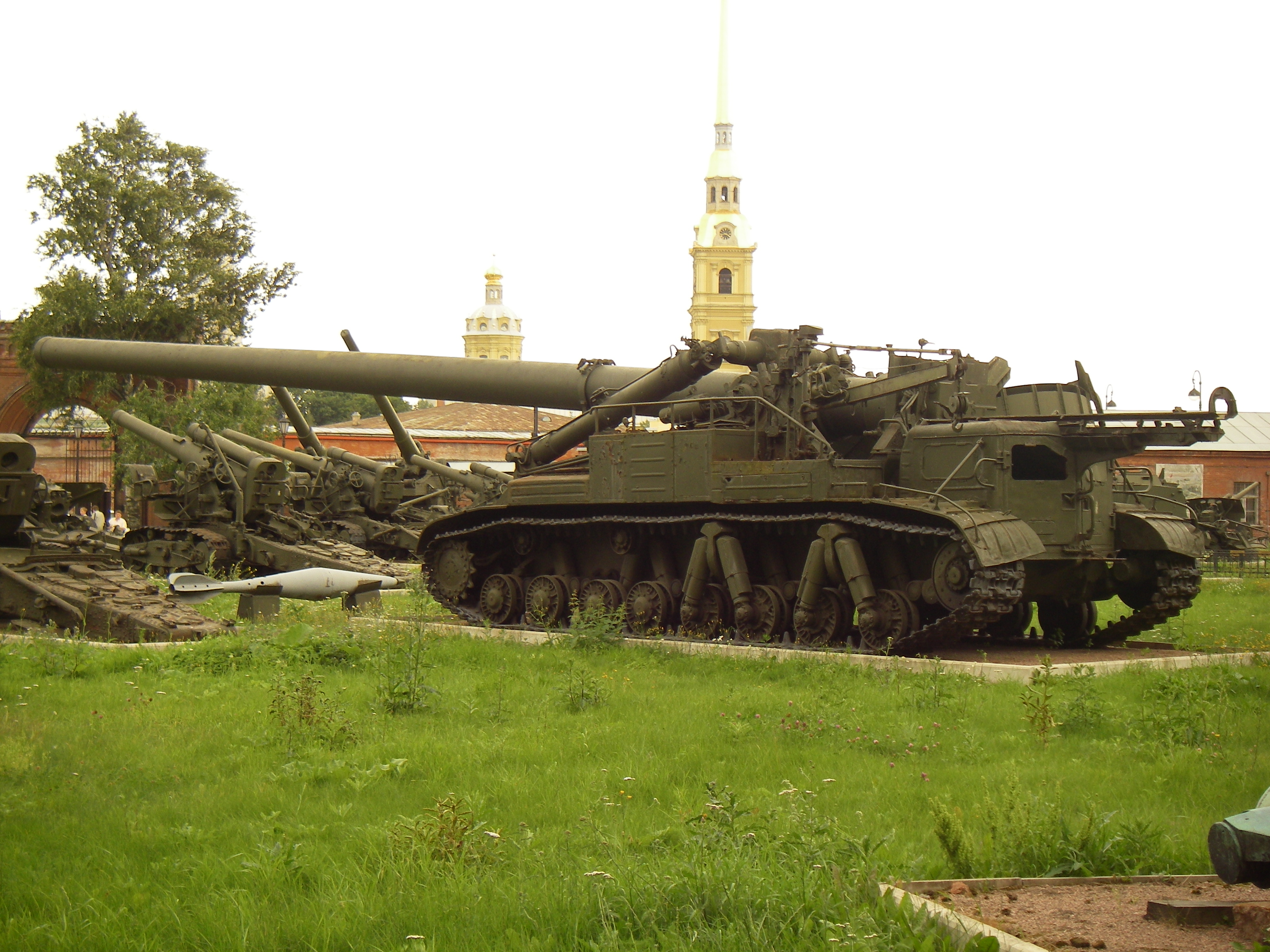 420-mm self-propelled mortar 2B1 «Oka» (rear view) and its shell in Saint-Petersburg Artillery museum